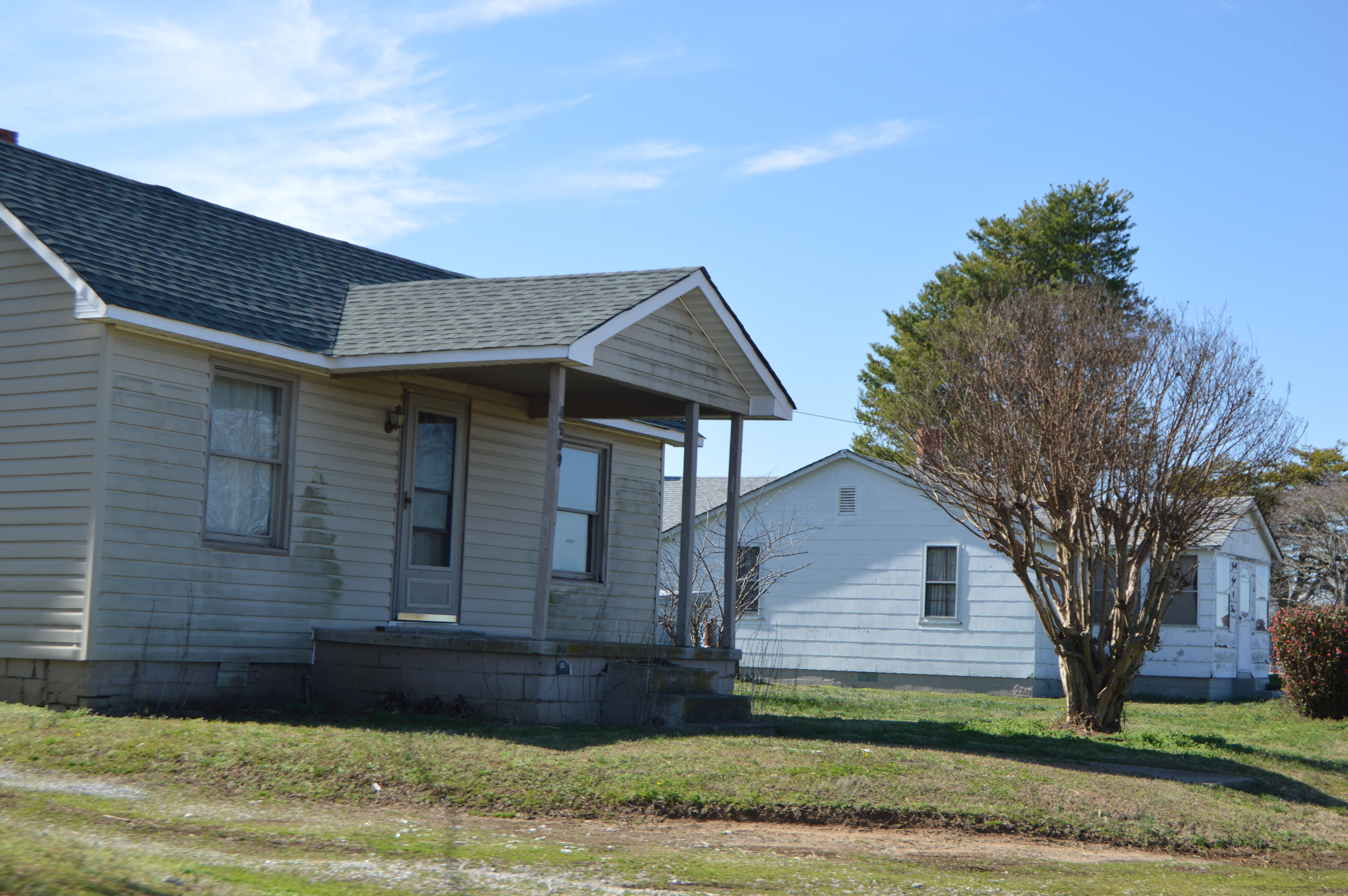 Houses at Bermuda Hundred in Chesterfield County, Virginia, United States. Founded in 1613, Bermuda Hundred is one of the oldest settlements in Virginia; the community has been designated a historic district and listed on the National Register of Historic Places.